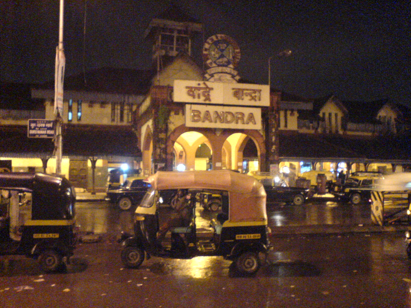 Outside Bandra railway station in Mubai at night. Entrance with sign in Hindi and English, autorickshaws zoom past.